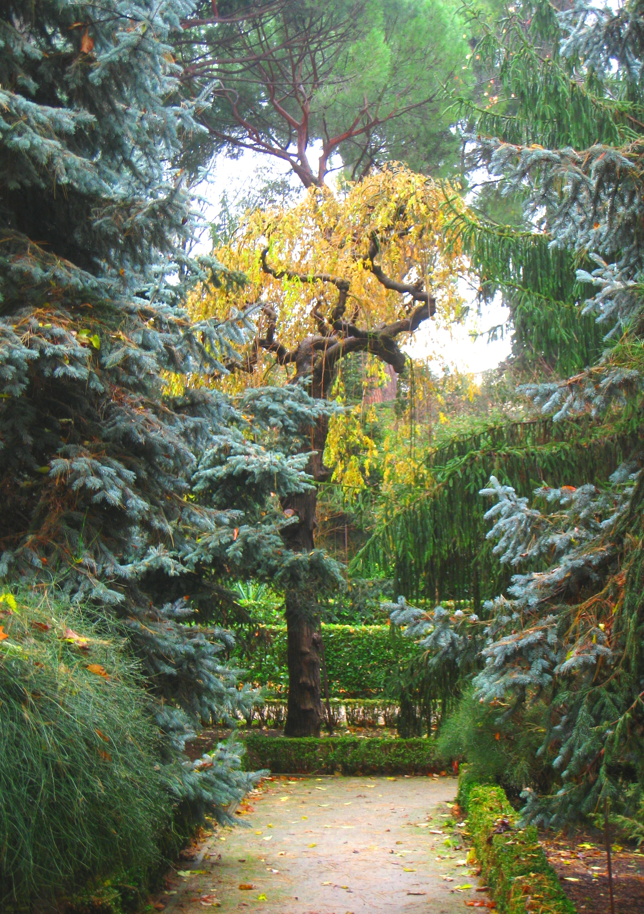 Royal Botanical Garden, Madrid, Spain. I took this photograph.